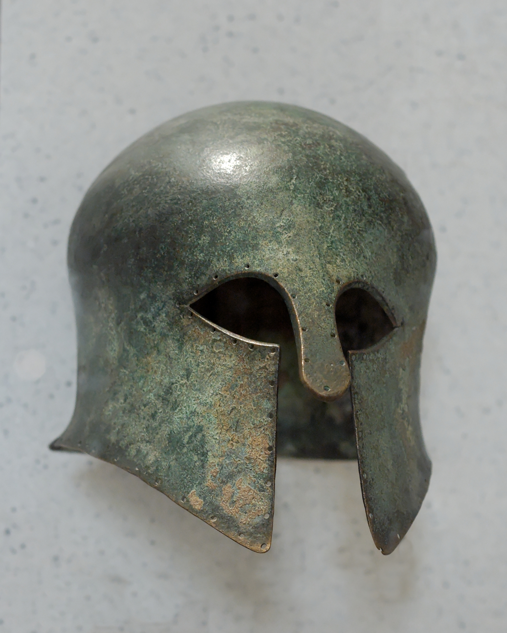 Corinthian helmet. Bronze, first quarter of the 6th century.